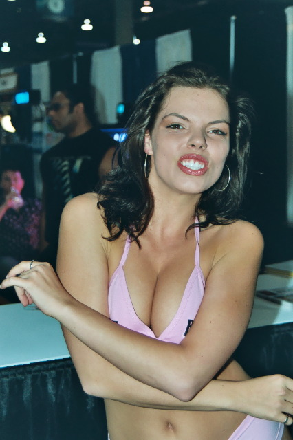 American pornographic actress Brooke Ballentyne at the 2003 AVN Adult Entertainment Expo in Las Vegas, Nevada.